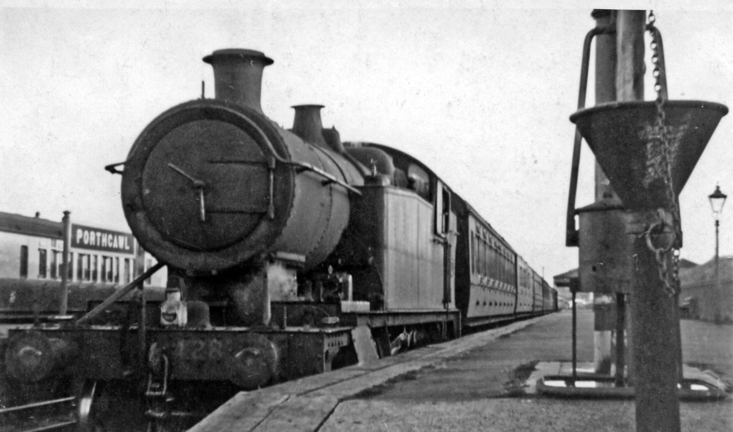 Excursion train (with freight locomotive) at Porthcawl station. View southward, towards the buffer-stops: GWR terminus of branch from Pyle. The locomotive is a Churchward '4200' 2-8-0T, No. 4287 (built 8/21, withdrawn 1/61).